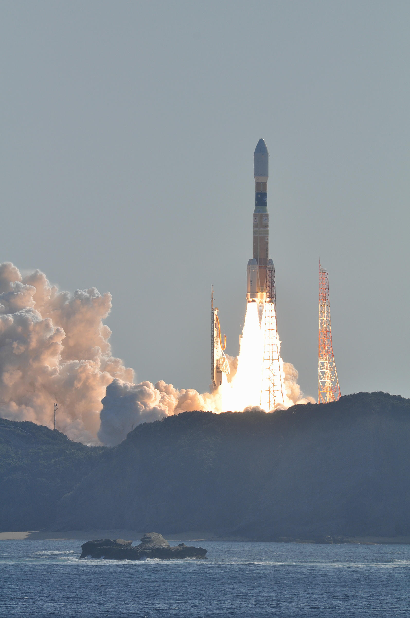 H-IIB Launch Vehicle Flight 2, launching H-II Transfer Vehicle "KOUNOTORI 2" (HTV2).